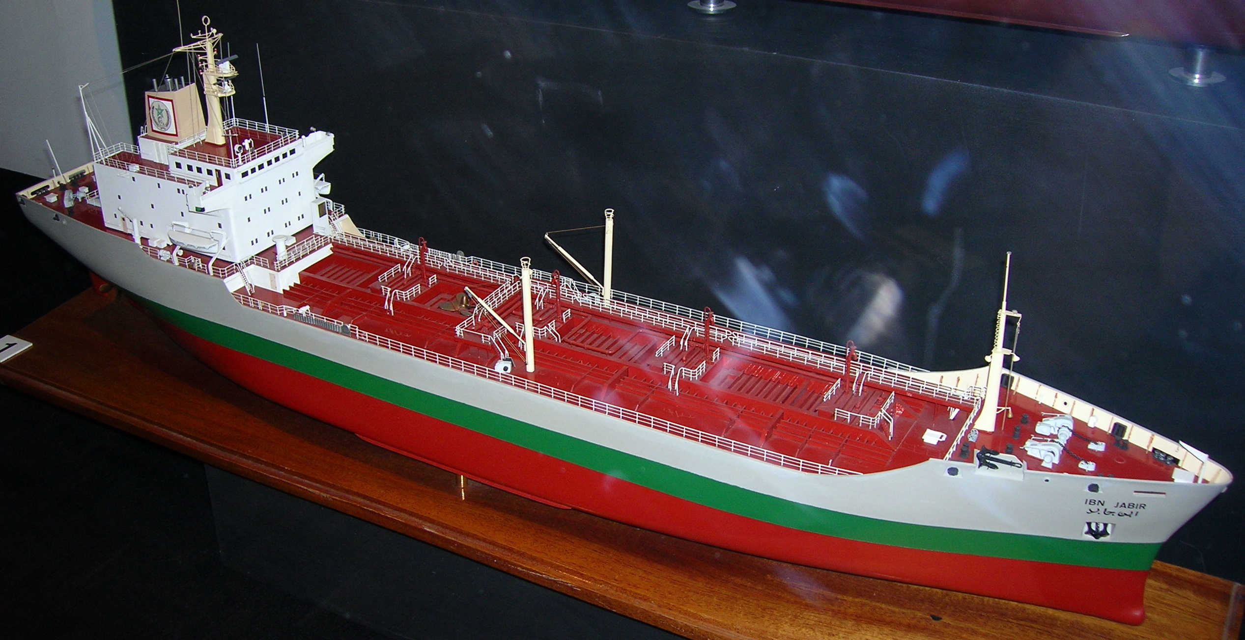 Model of a chemical tanker transporting phosphore, Ibn Jabir.